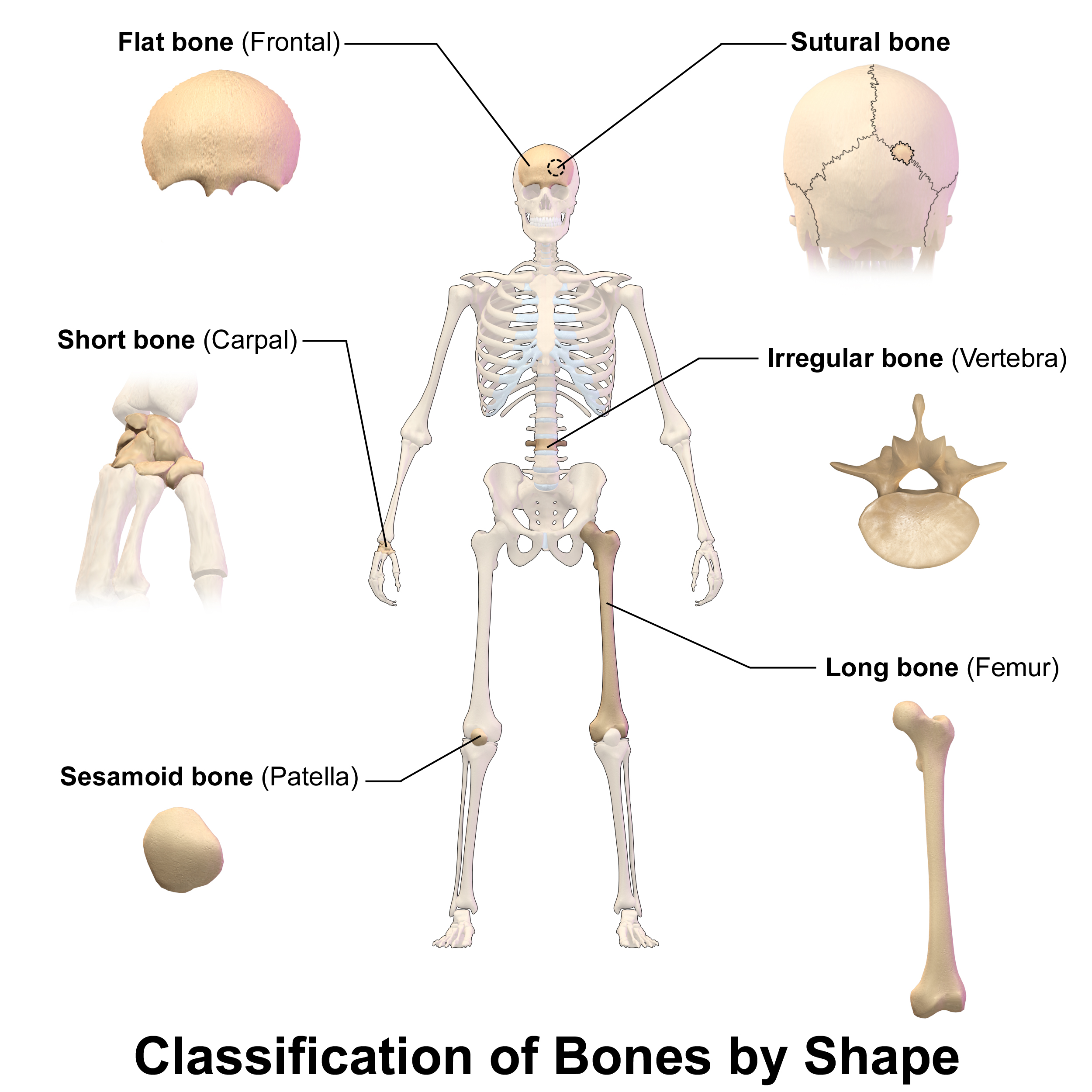 Classification of Bones By Shape. See a related animation of this medical topic.